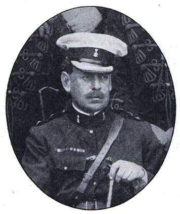 Field Marshal Lord Chetwode